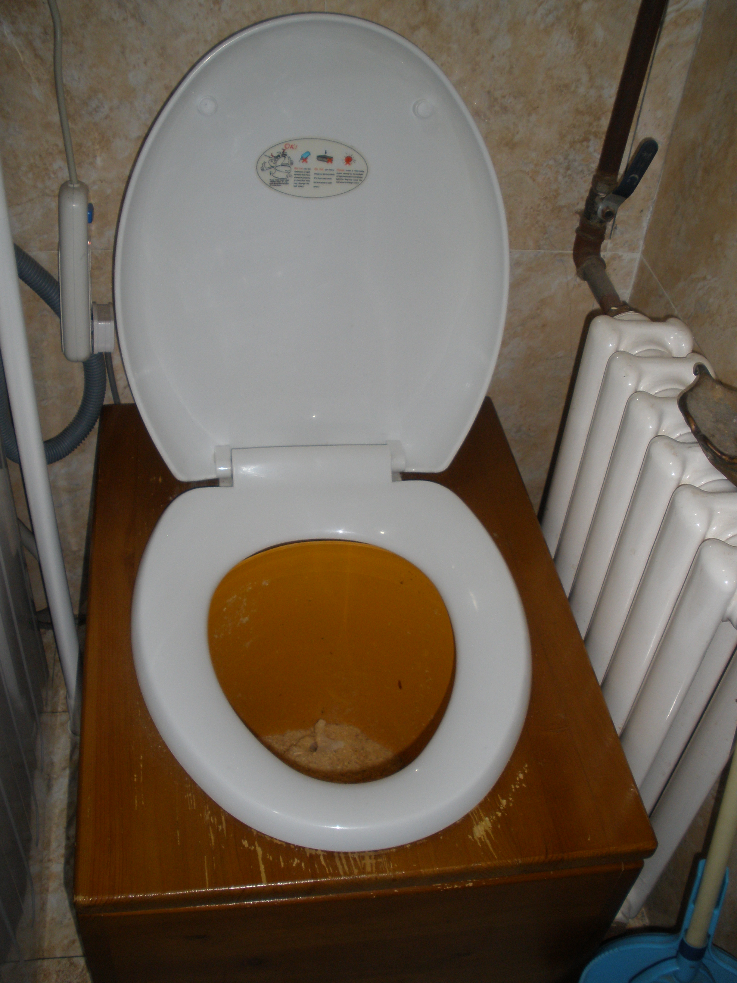 Composting toilets (which are engineered and where composting takes place directly underneath the user interface)